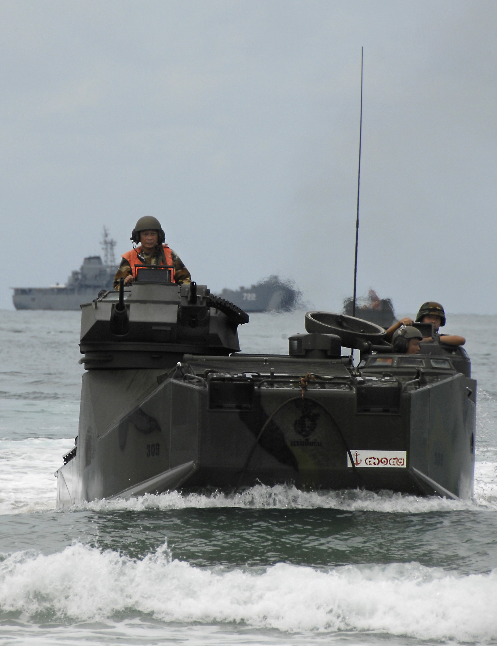 HATYAO BEACH, Thailand (May 11, 2007) - Royal Thai Marines storm ashore in an amphibious assault vehicle during an amphibious raid exercise at Hatyao Beach in Chon Buri, Thailand. The training was part of Cobra Gold 2007, an annual U.S. and Thai multilateral exercise designed to ensure regional peace and strengthen the ability of the Royal Thai armed forces to defend Thailand or respond to regional contingencies. U.S. Marine Corps photo by Sgt. Ethan E. Rocke (RELEASED)